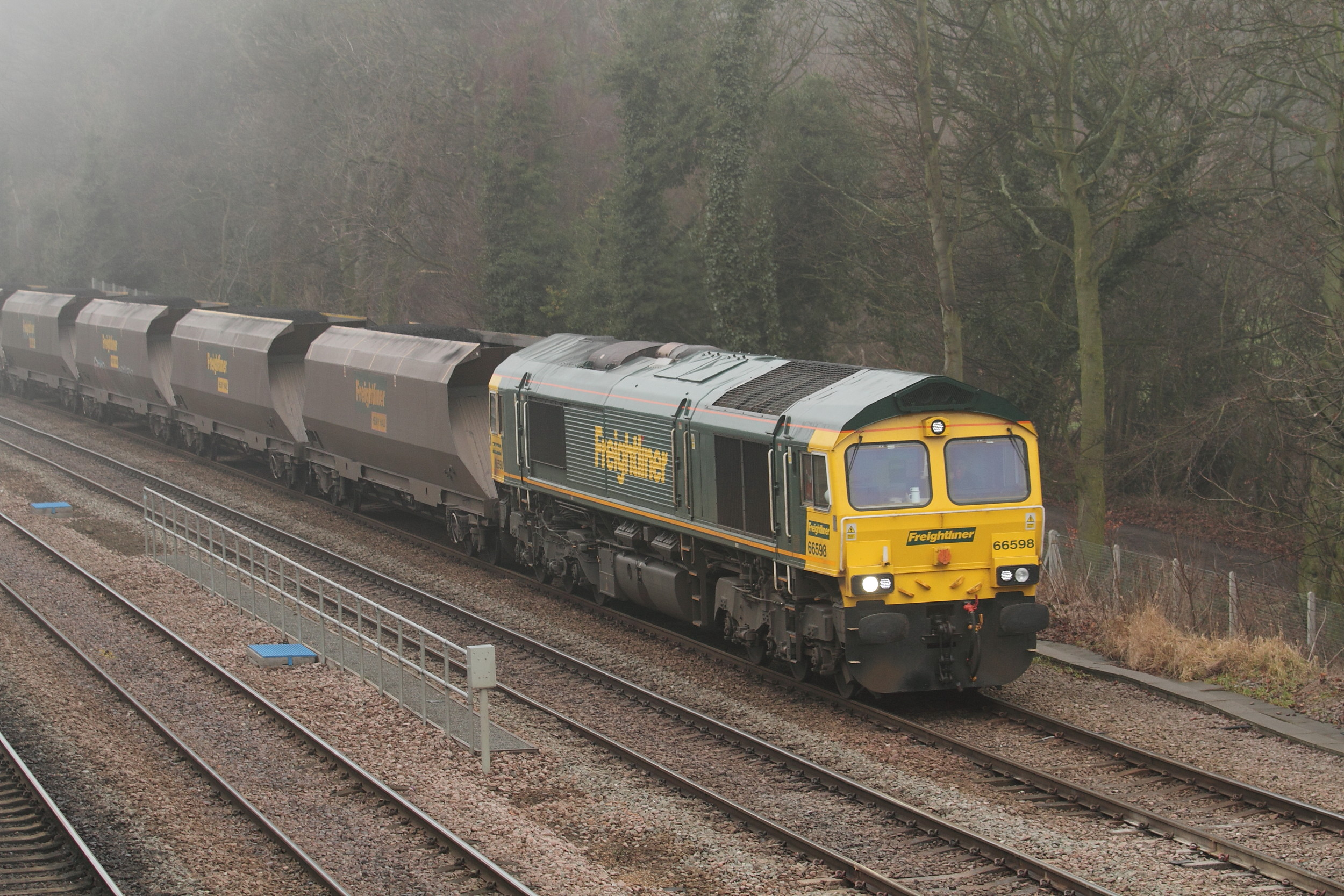 The five door model